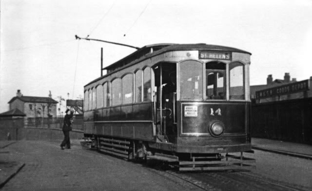 An image from the St Helens Library Archives, in public domain, of a St. Helens Tram